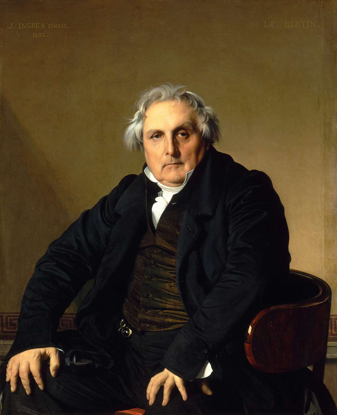 Portrait of French journalist Louis-François Bertin (1766-1814)